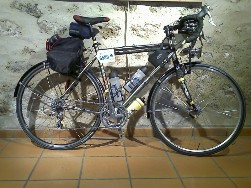 Photo by John Preston of his bike used in 2007 Paris-Brest-Paris just before the event started.